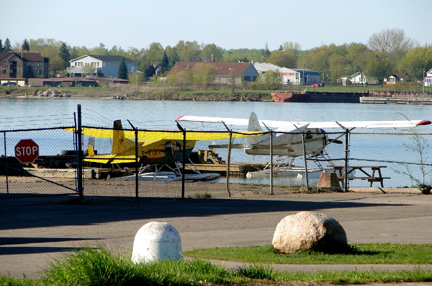 Water aerodrome at the Bushplane Museum, Sault Ste. Marie, Ontario, Canada. Sault Ste. Marie, Michigan, is in the background.